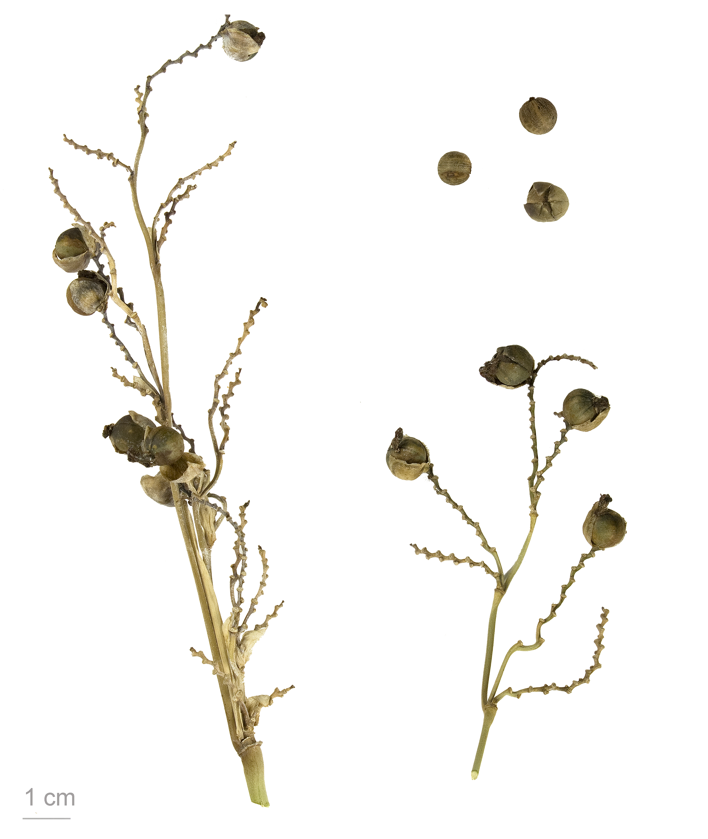 Powdery thalia, fruits and seeds